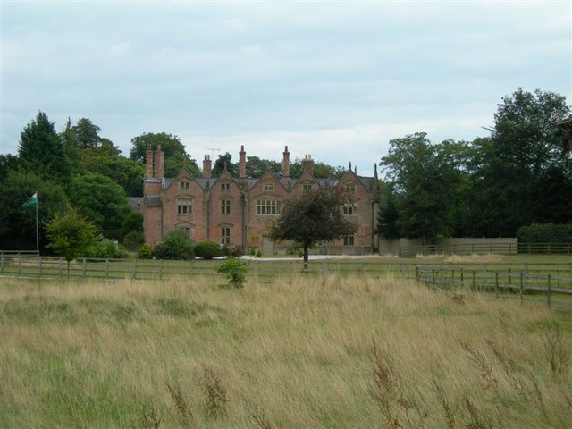 Trevalyn Hall. Trevalyn Hall, Rossett. Build in 1576.